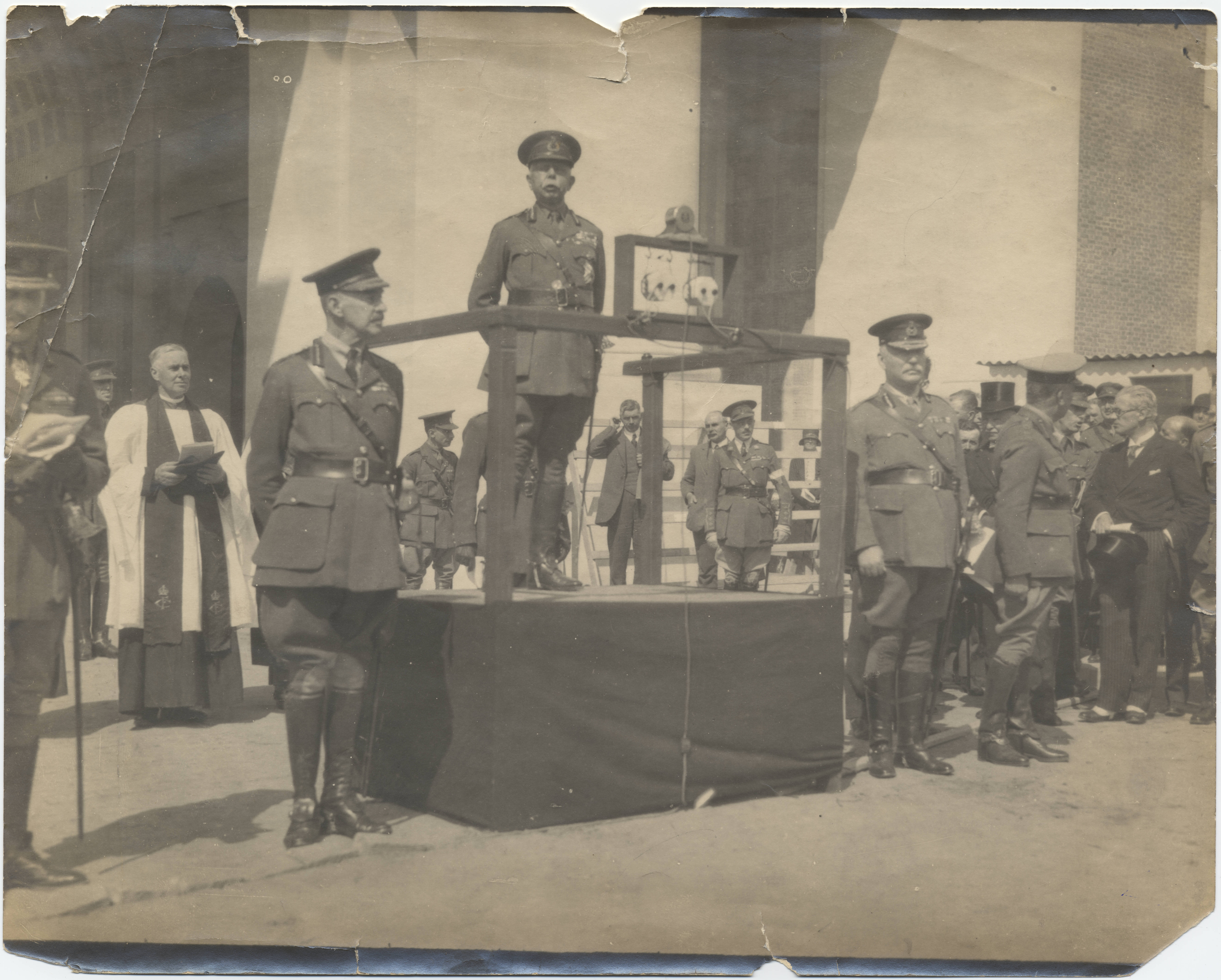 Item is a photograph from an album of World War One-related photographs in the William Okell Holden Dodds fonds. Brigadier General Dodds joined the Canadian Expeditionary Force in 1914 and was commanding officer of the 5th Canadian Division Artillery and served in France from 1917-1918.